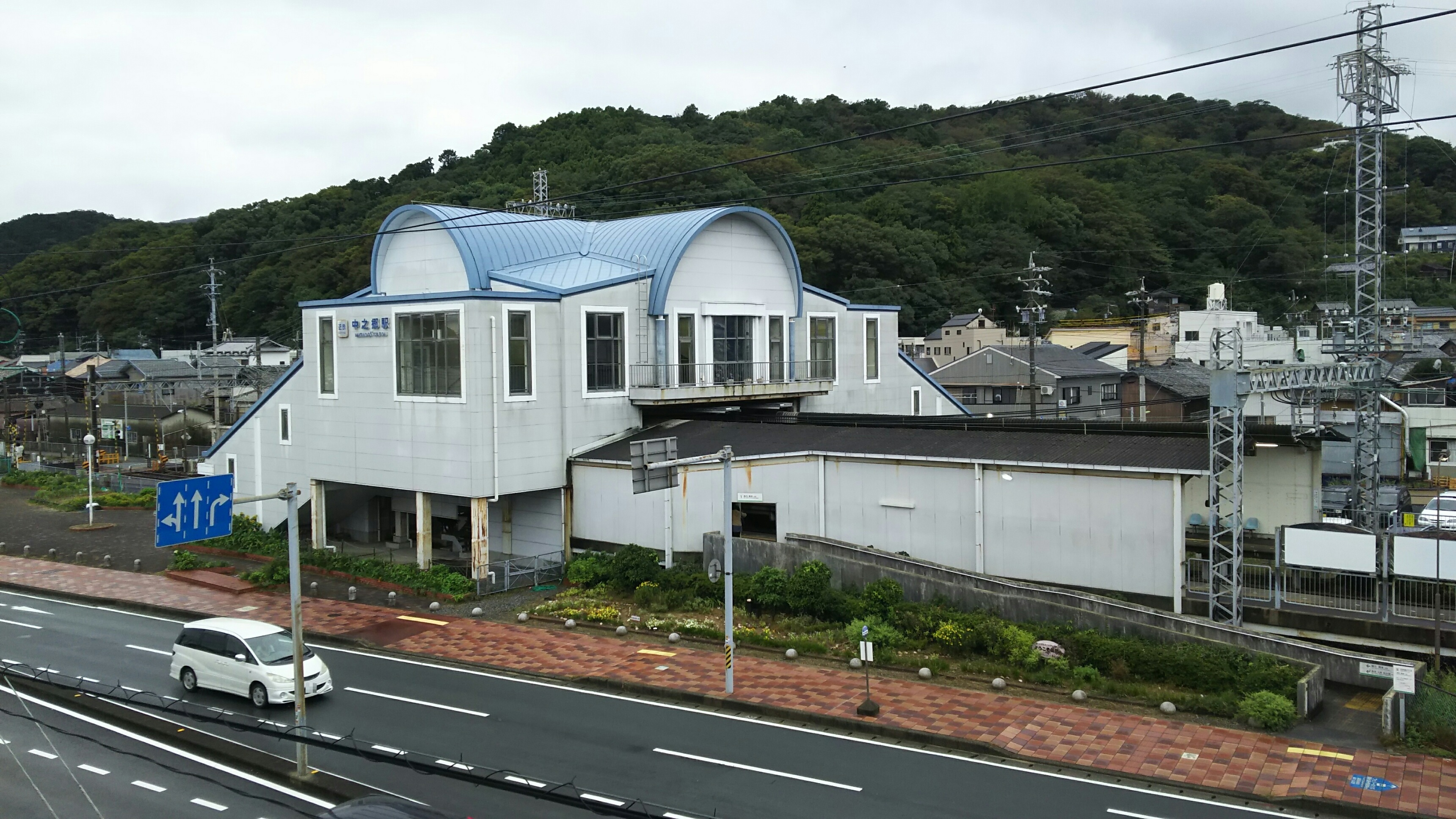 Kintetsu Nakanogo station view from Toba Aquarium.